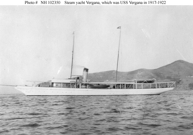 The yacht Vergana prior to her United States Navy service as patrol vessel